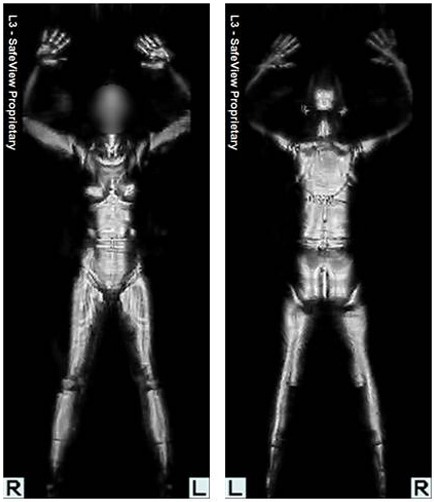 Millimeter wave technology